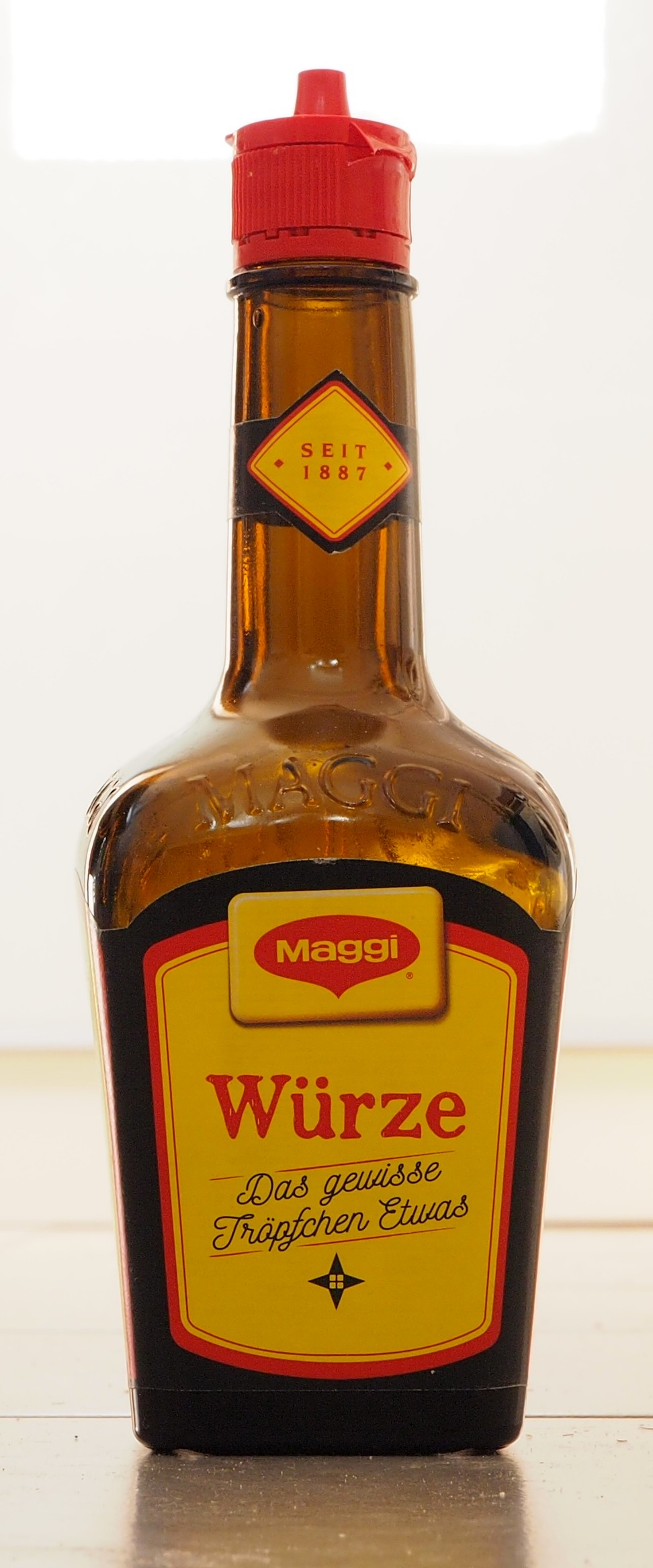 Maggi-Würze seasoning sauce. Typical brown-glass bottle with a square base. Bought in Germany in 2019, contains 250 g of sauce.